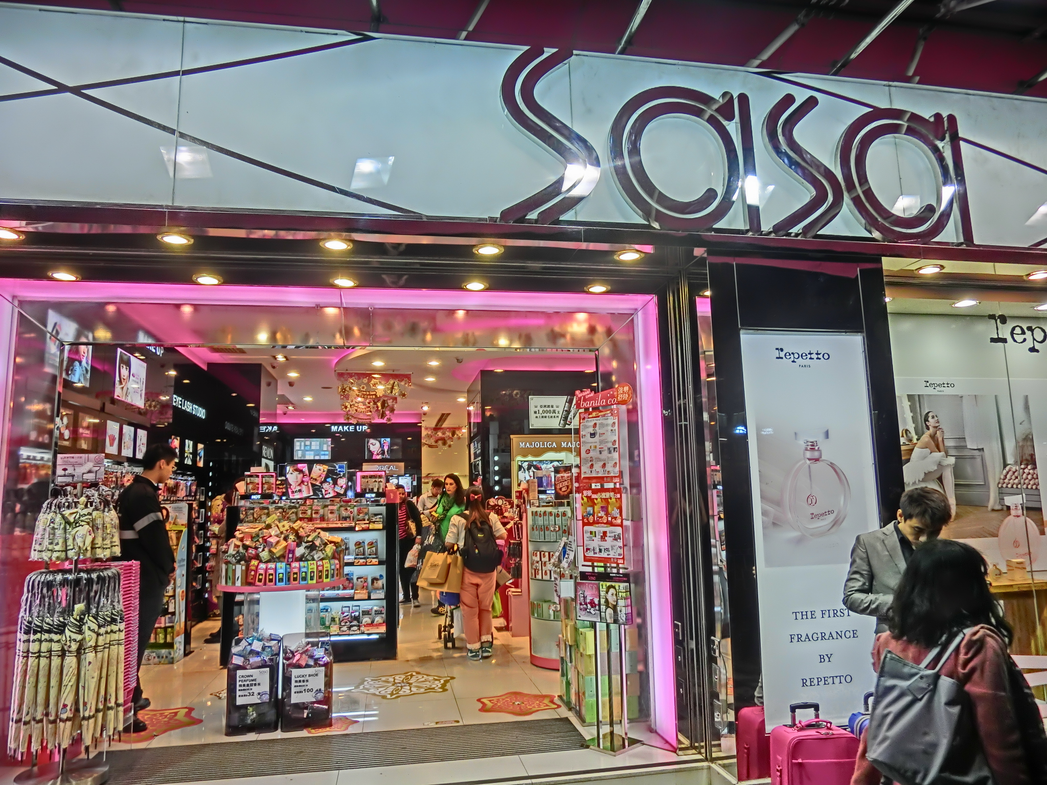 莎莎國際, Shop in Tsim Sha Tsui, Hong Kong